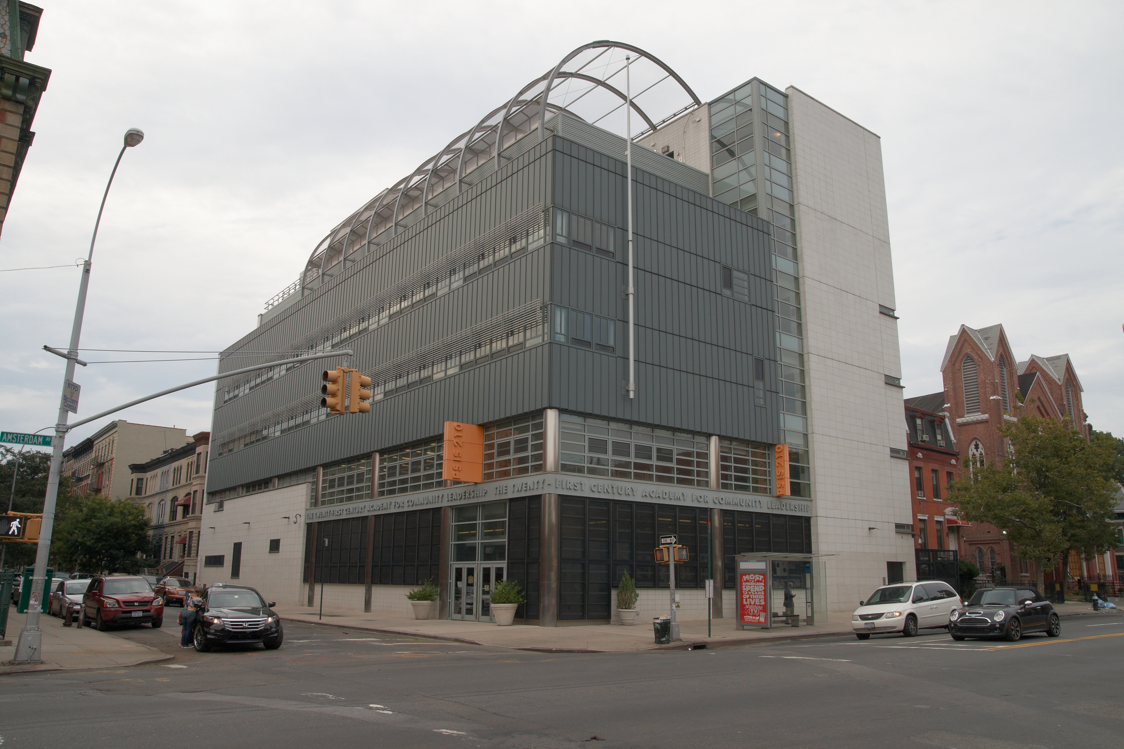 Looking at P.S./I.S. 210 Twenty-First Century Academy For Community Leadership, at the intersection of Amsterdam Avenue and West 152nd Street in Manhattan, New York City.